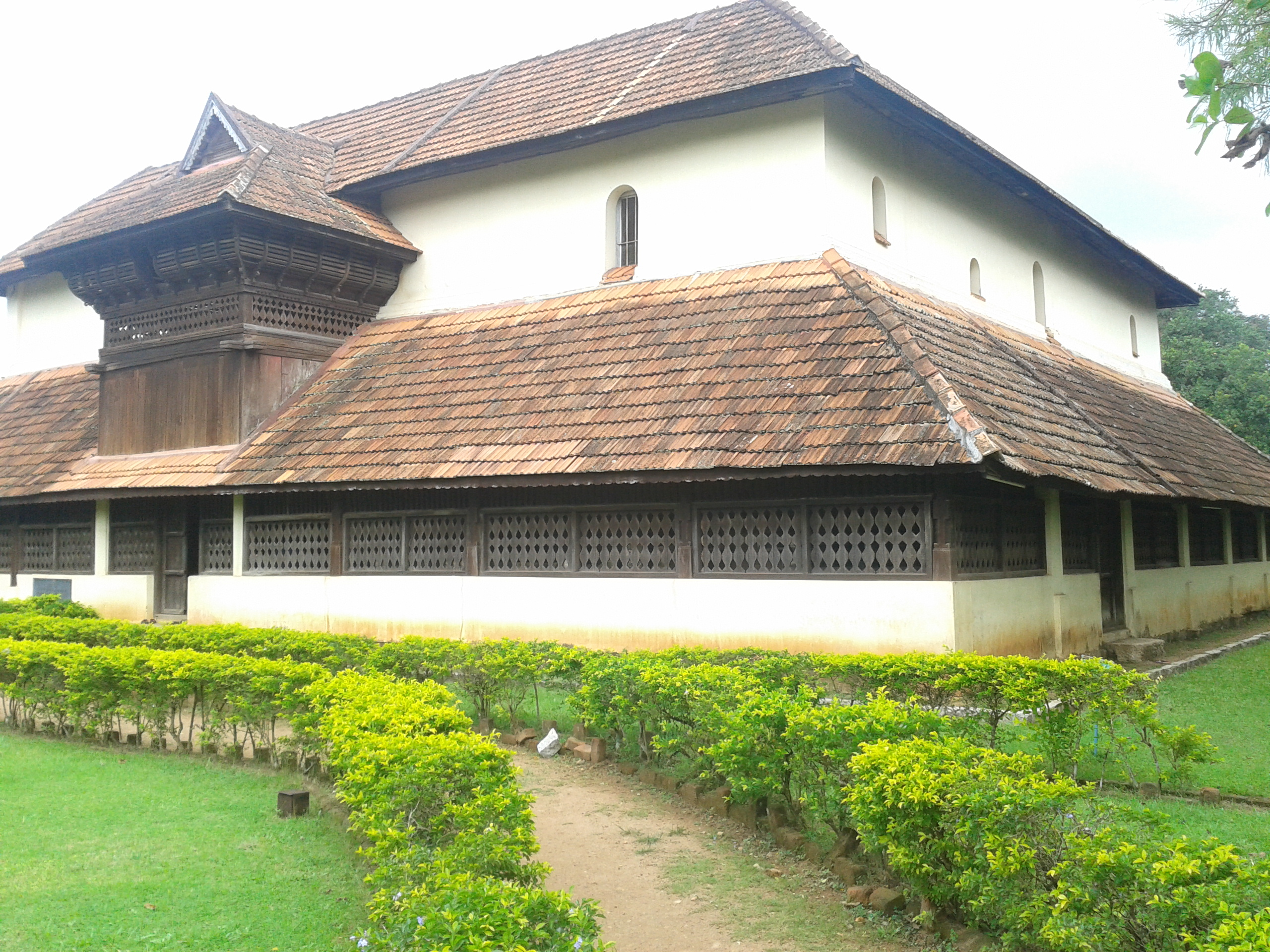 Koyikkal Palace is located at Nedumangad 18 km from Trivandrum, on the way to Ponmudi and Courtallam waterfalls.